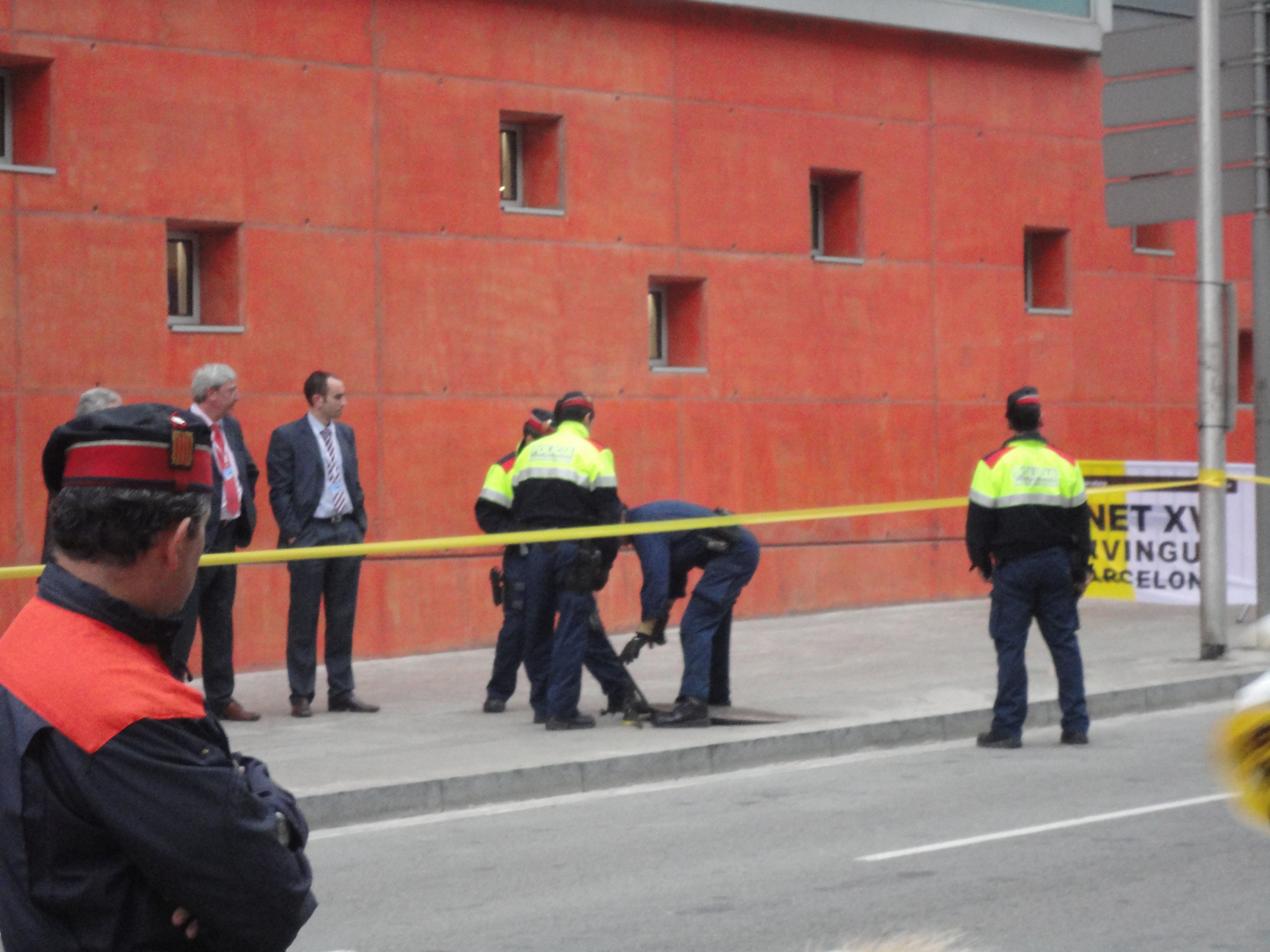 During the visit of Pope Benedict XVI in Barcelona on 7th November 2010 the Catalan police were searching the sewers on papamòbil's route to ensure that there were no bombs.